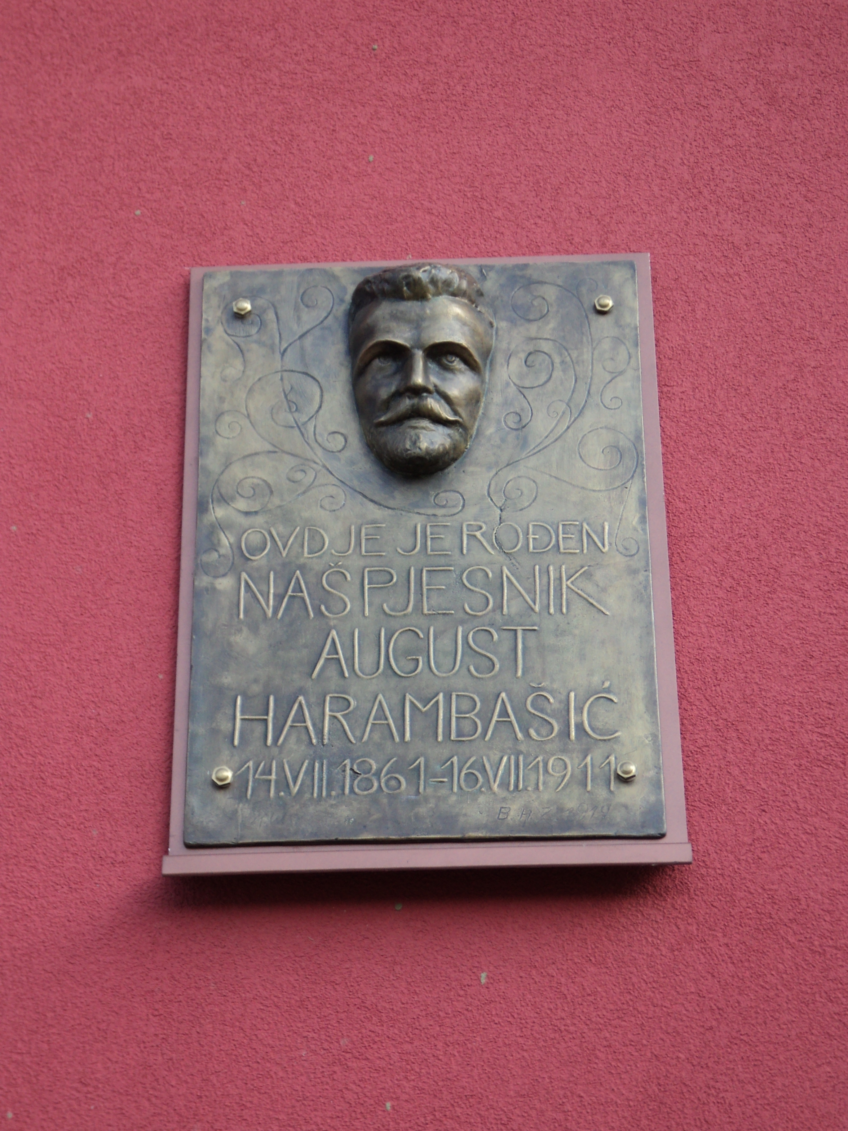 Memorial plaque at the birth house of August Harambašić in Donji Miholjac.